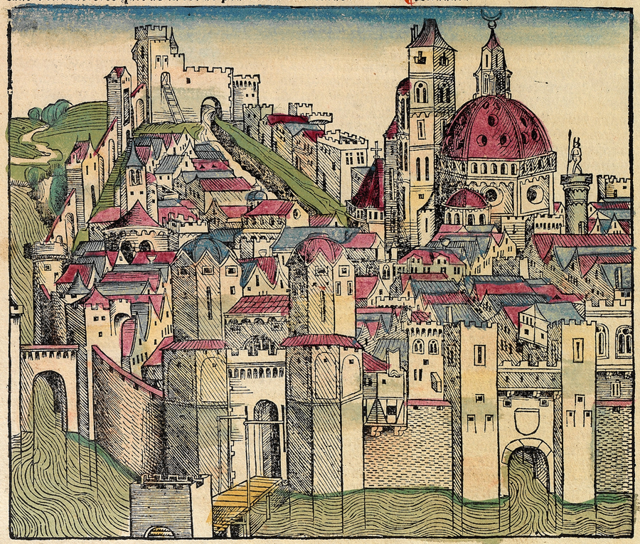 Illustration from the Nuremberg Chronicle (Latin copy in Sao Paulo)